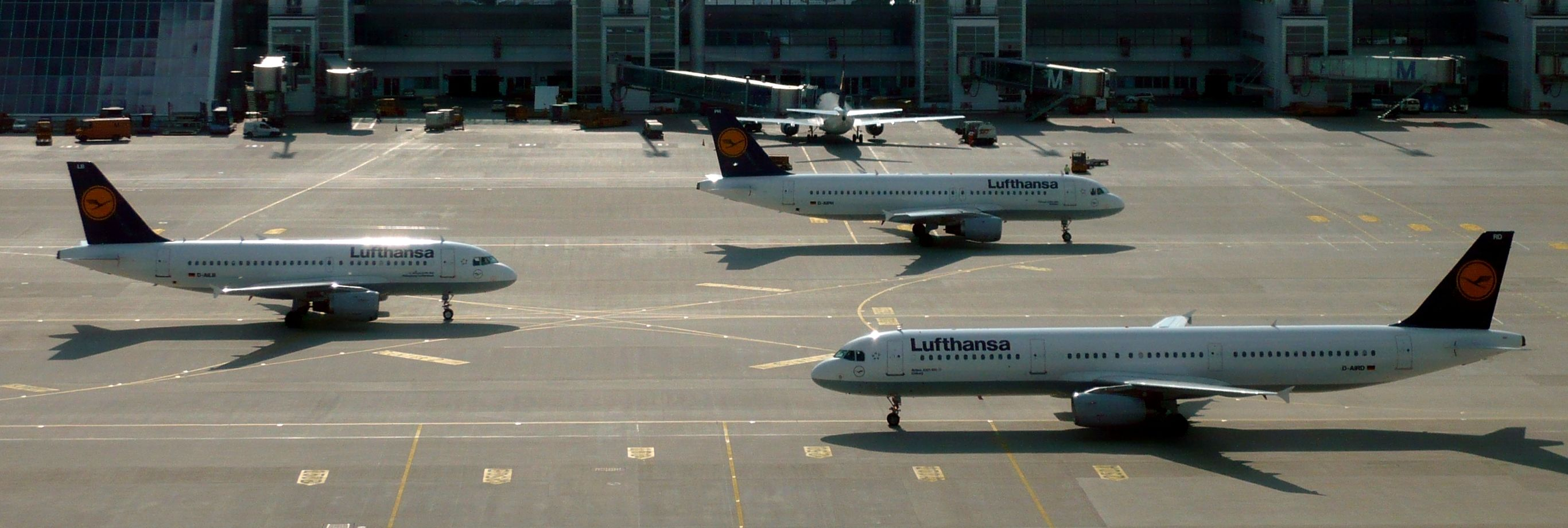 Lufthansa A319, A320 and A321 at Munich Airport, cropped version of this picture.